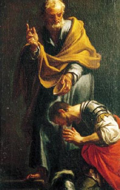 Peter Baptizing the Centurion Cornelius